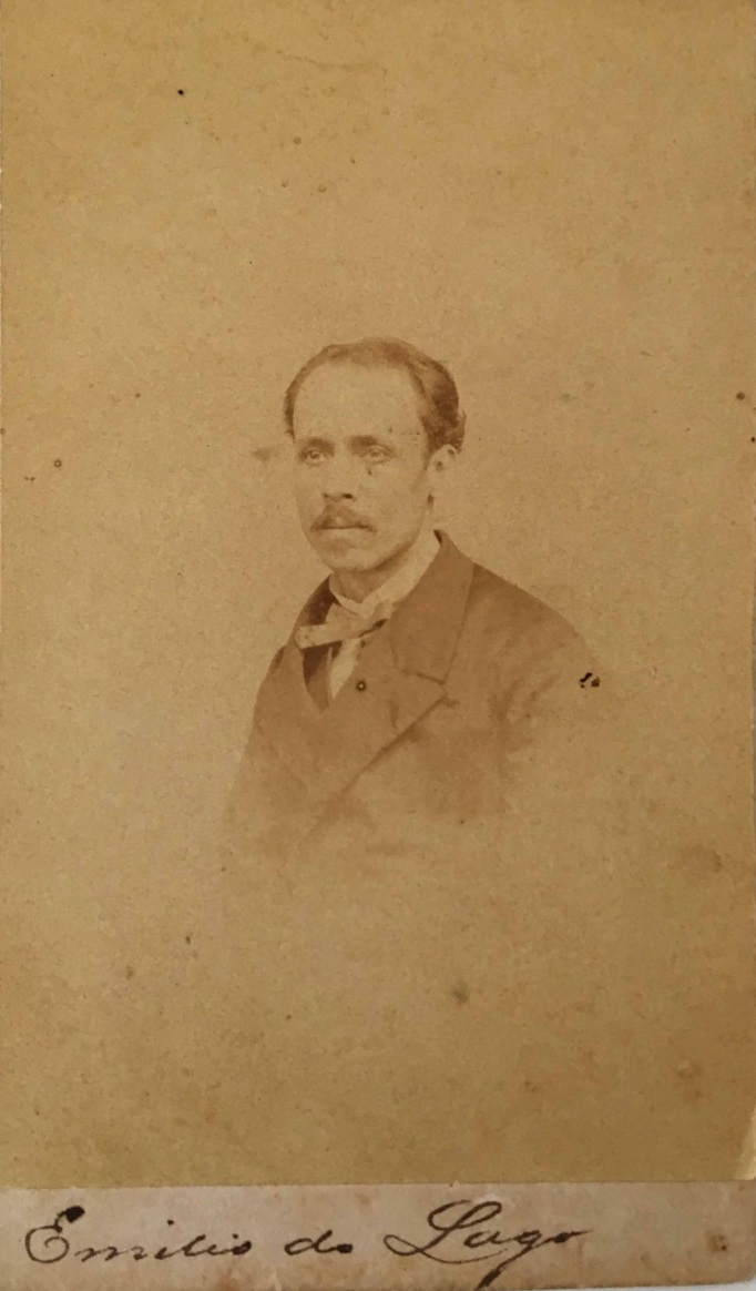 Emilio do Lago was a Brazilian composer, pianist, conductor and music teacher